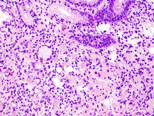 Histopathology of gastric adenocarcinoma representing a signet ring cell variant identified in an endoscopic biopsy specimen. Hematoxylin and eosin stain.